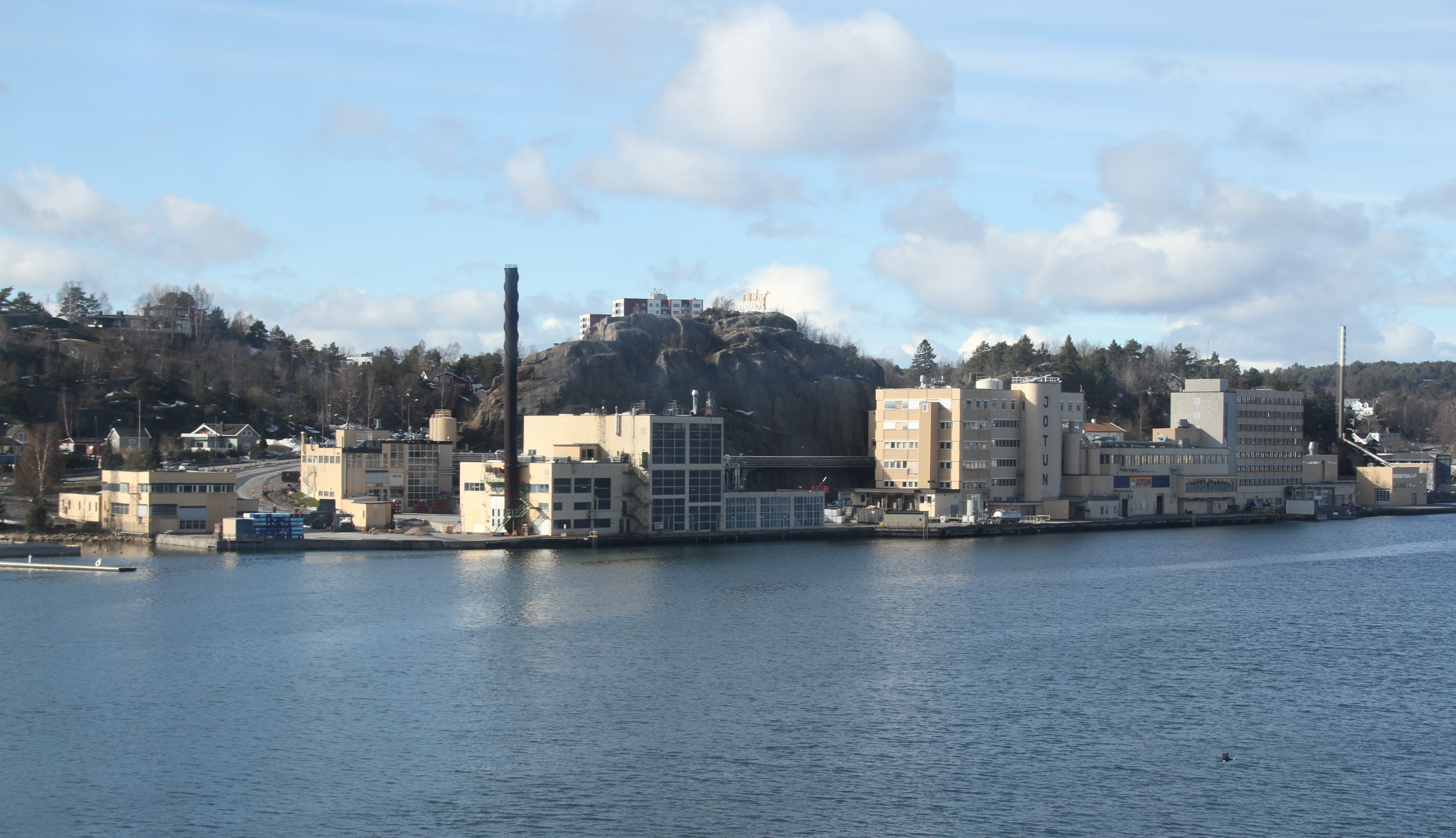 Jotun Paint factory (Jotun fabrikker) in Sandefjord, Norway